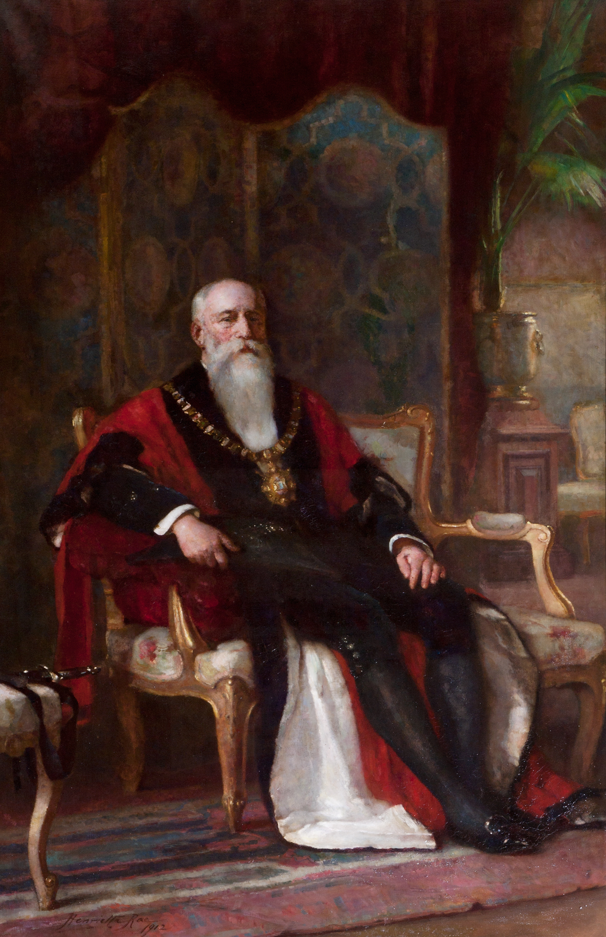 Portrait of Sir Robert Anderson, Lord Mayor of Belfast (1908-1910)